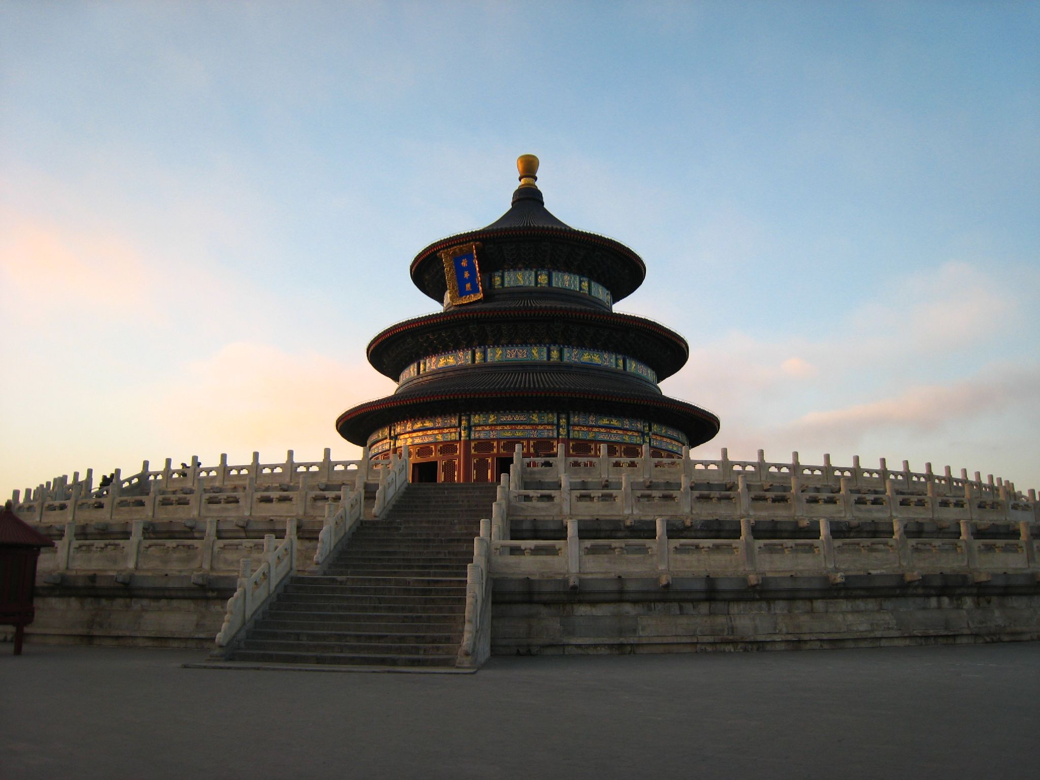 The Temple of Heaven near closing time